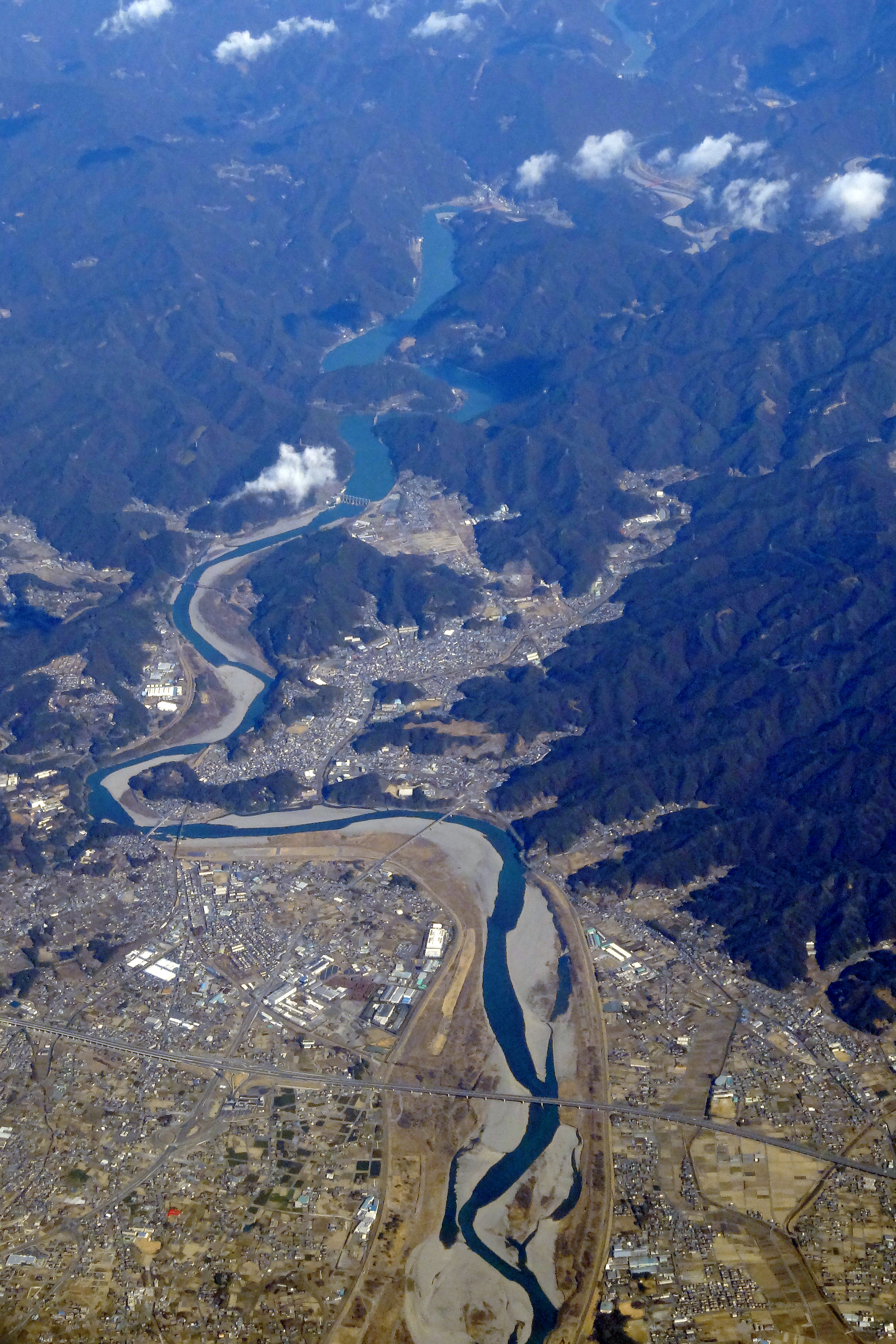 Tenryu River from the sky in Shizuoka prefecture, Japan.